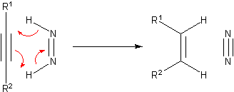 Transfer Hydrogenation. From Org. React. 1991, 40, 91. I release this under the following licence